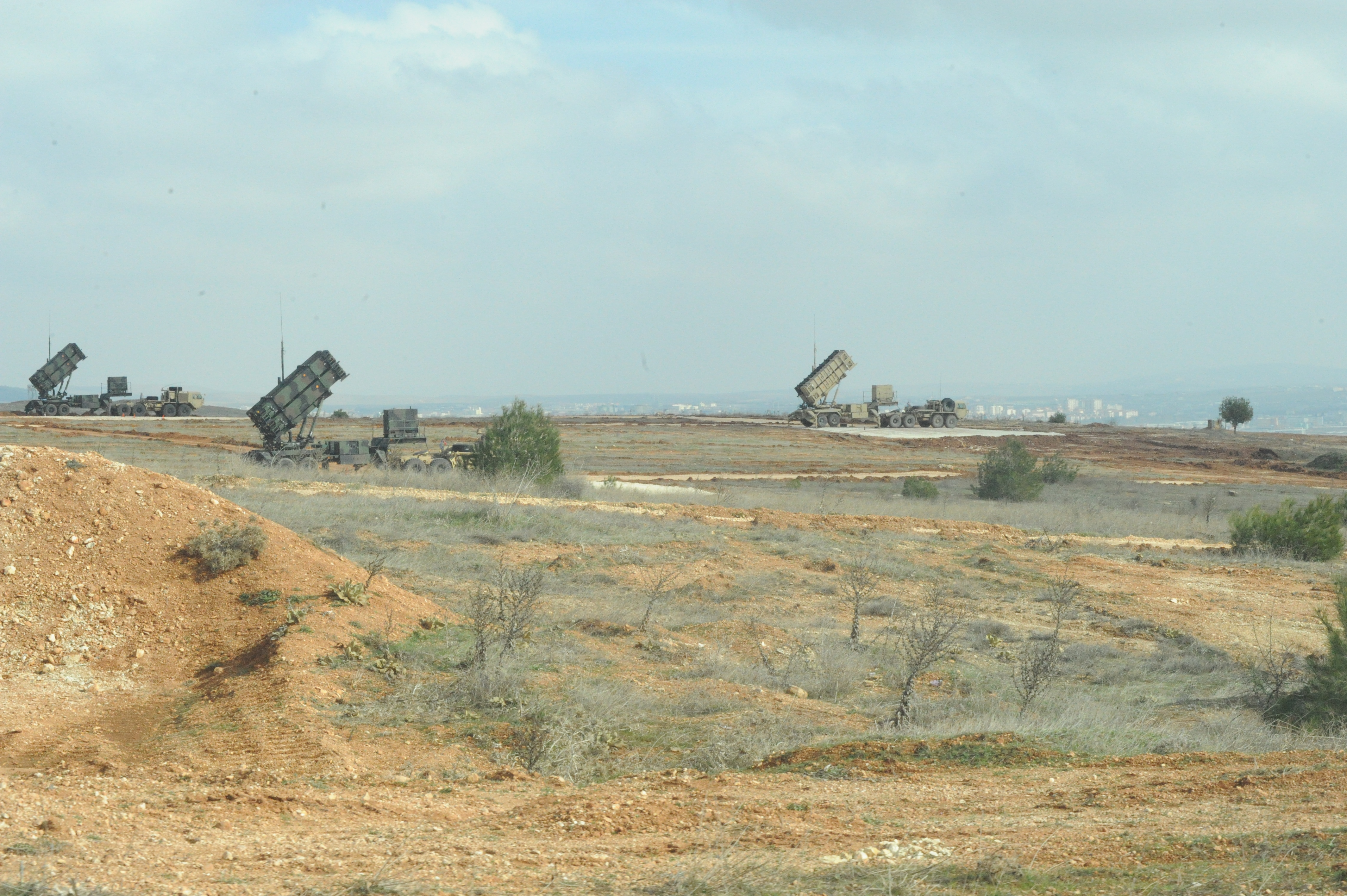 GAZIANTEP, Turkey - Soldiers with 3rd Battalion, 2nd Air Defense Artillery Regiment conduct services on Patriot missile launchers during air missile defense operations in southern Turkey, Feb. 5, 2013. U.S. and NATO Patriot missile batteries and personnel deployed to Turkey in support of NATO's commitment to defending Turkey's security during a period of regional instability.